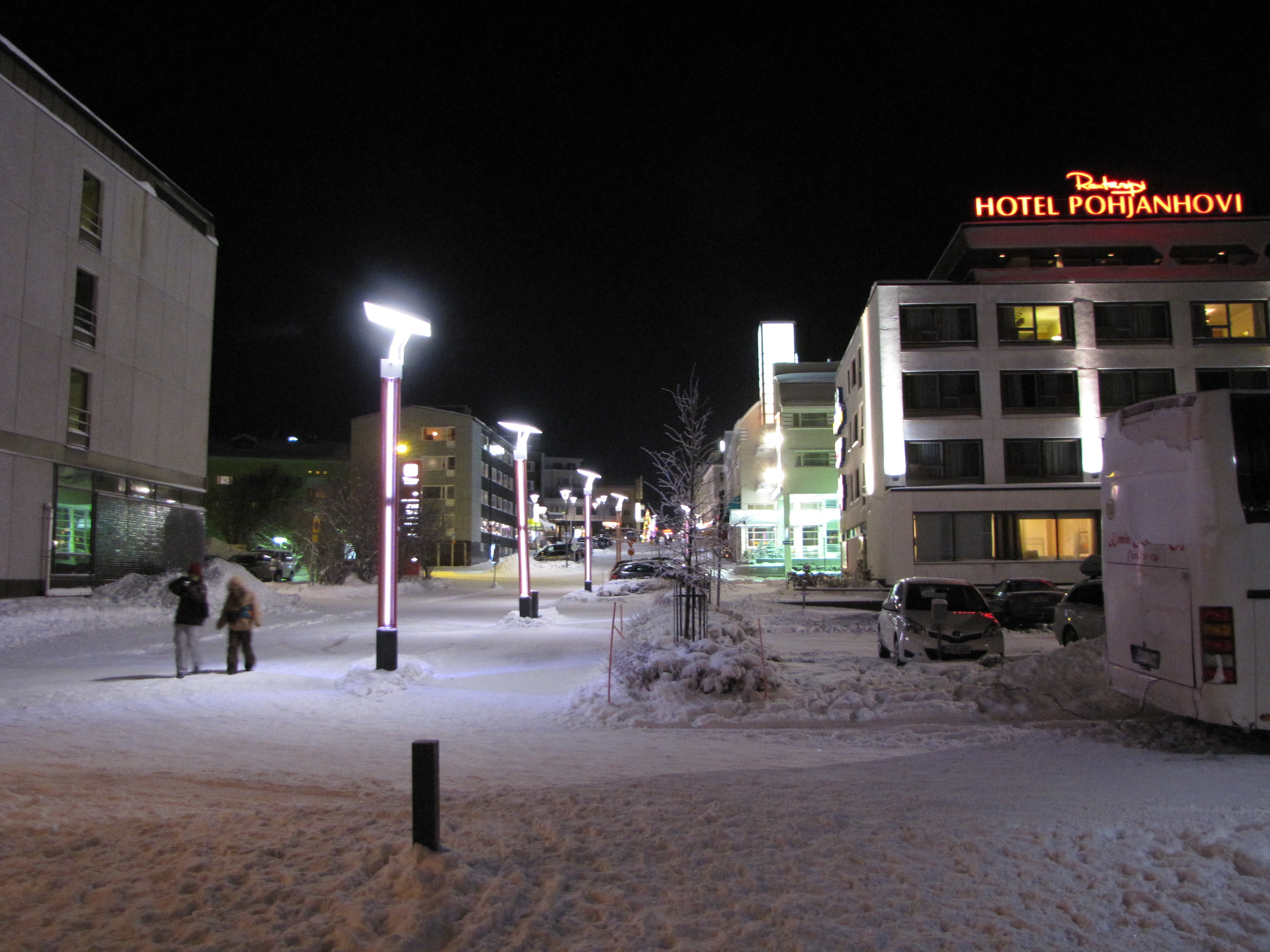 Part of Koskikatu street and hotel Pohjanhovi seen from the west bank of Kemijoki river at Rovaniemi, Finland, December 28th 2012.